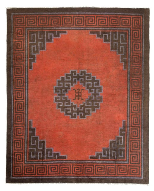 Inner Mongolian carpet, circa 1870. Wool pile on a cotton foundation, 240 x 184 cm. David Sorgato